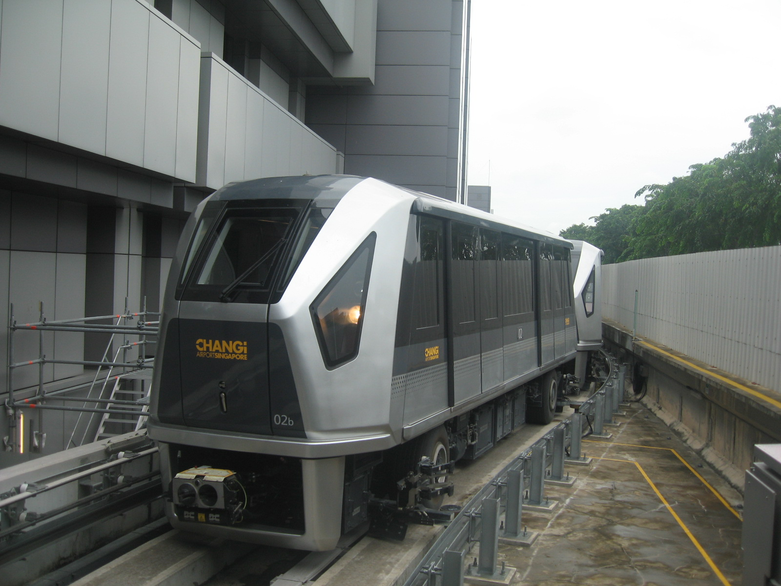 Singapore Changi Airport, Skytrain, Mitsubishi Heavy Industries Crystal Mover car.